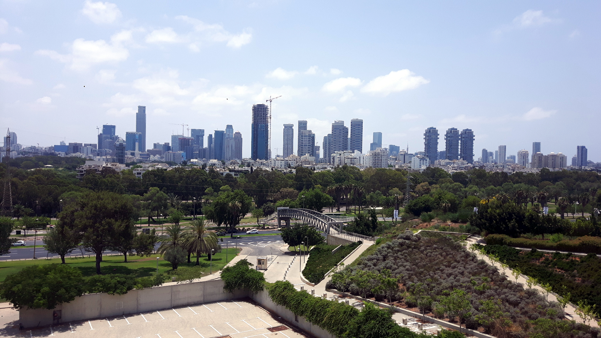 Tel Aviv panorama from the Yitzhak Rabin Center